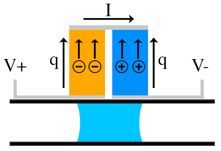 Schematic of a Peltier element cooling an ice plug in a microfluidic channel